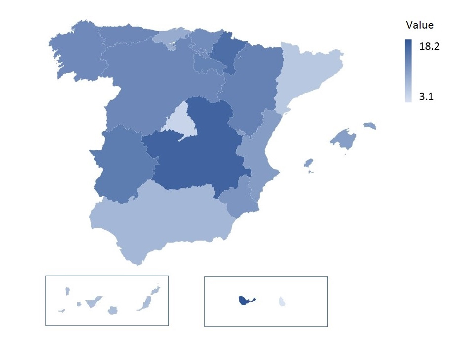 The map shows the distribution of islamic communities per 10,000 Muslim population in 2019 among the autonomous communities of Spain (also Ceuta and Melilla)